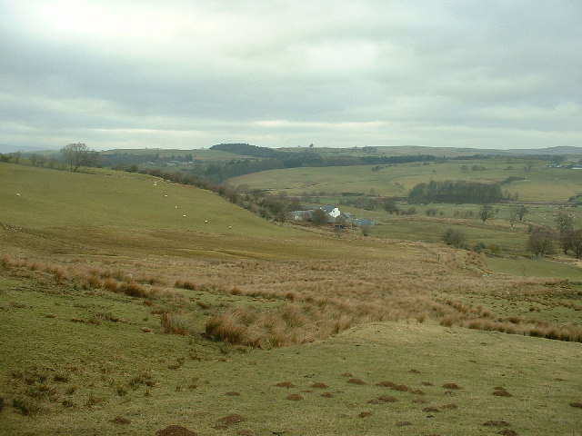 Ty'n Llwyn Farm near Pentrefoelas. Looking north